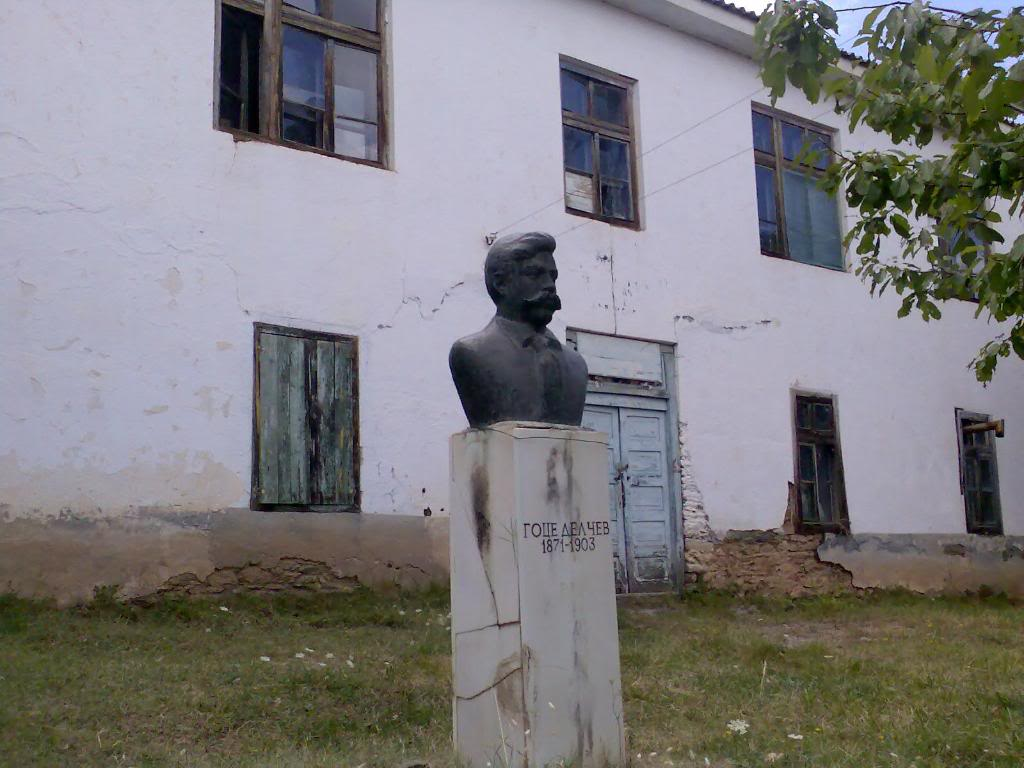 Village of Rastesh, Poreche region, Republic of Macedonia